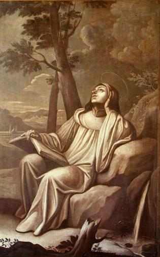 Image of Saint Adalgott. Source Cropped from an image at